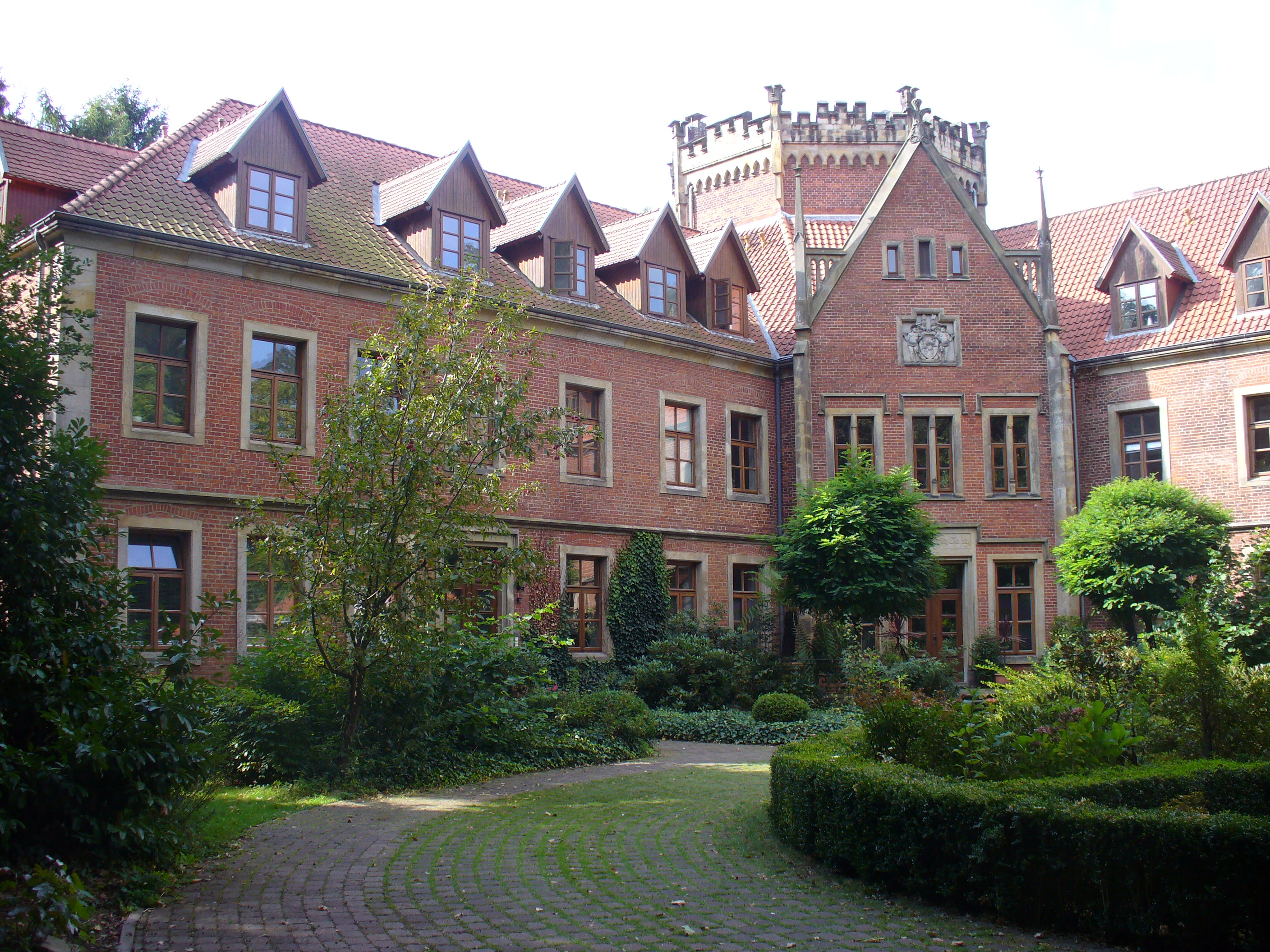 Blumenau Castle (built 1867), now used as a private housing estate